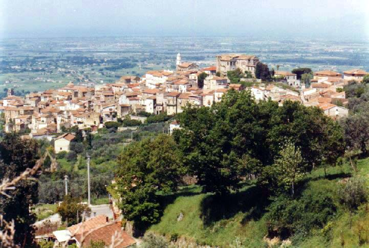 Middle ages section of Altavilla Silentina